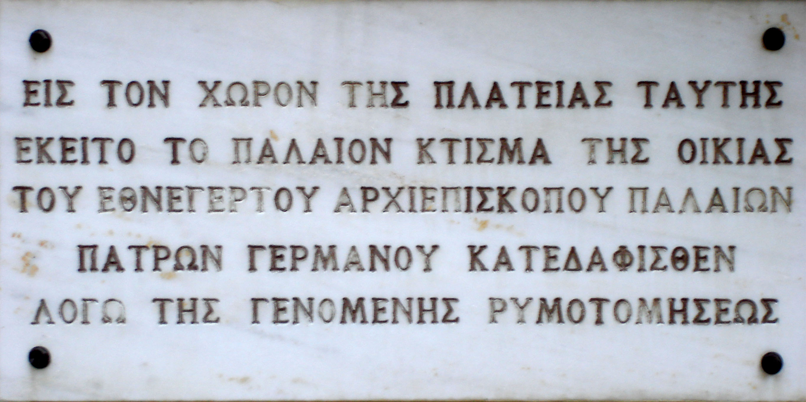 Patra Greece